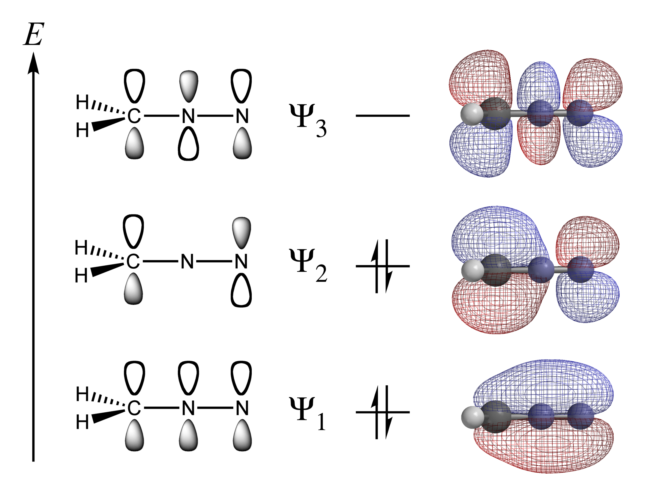 Molecular orbital diagram of the conjugated pi systems of the diazomethane molecule, H2CN2. 2D parts drawn in ChemDraw Ultra 11.0. 3D parts calculated and drawn in Spartan Student 4.1, using the Hartree-Fock 3-21G setting.